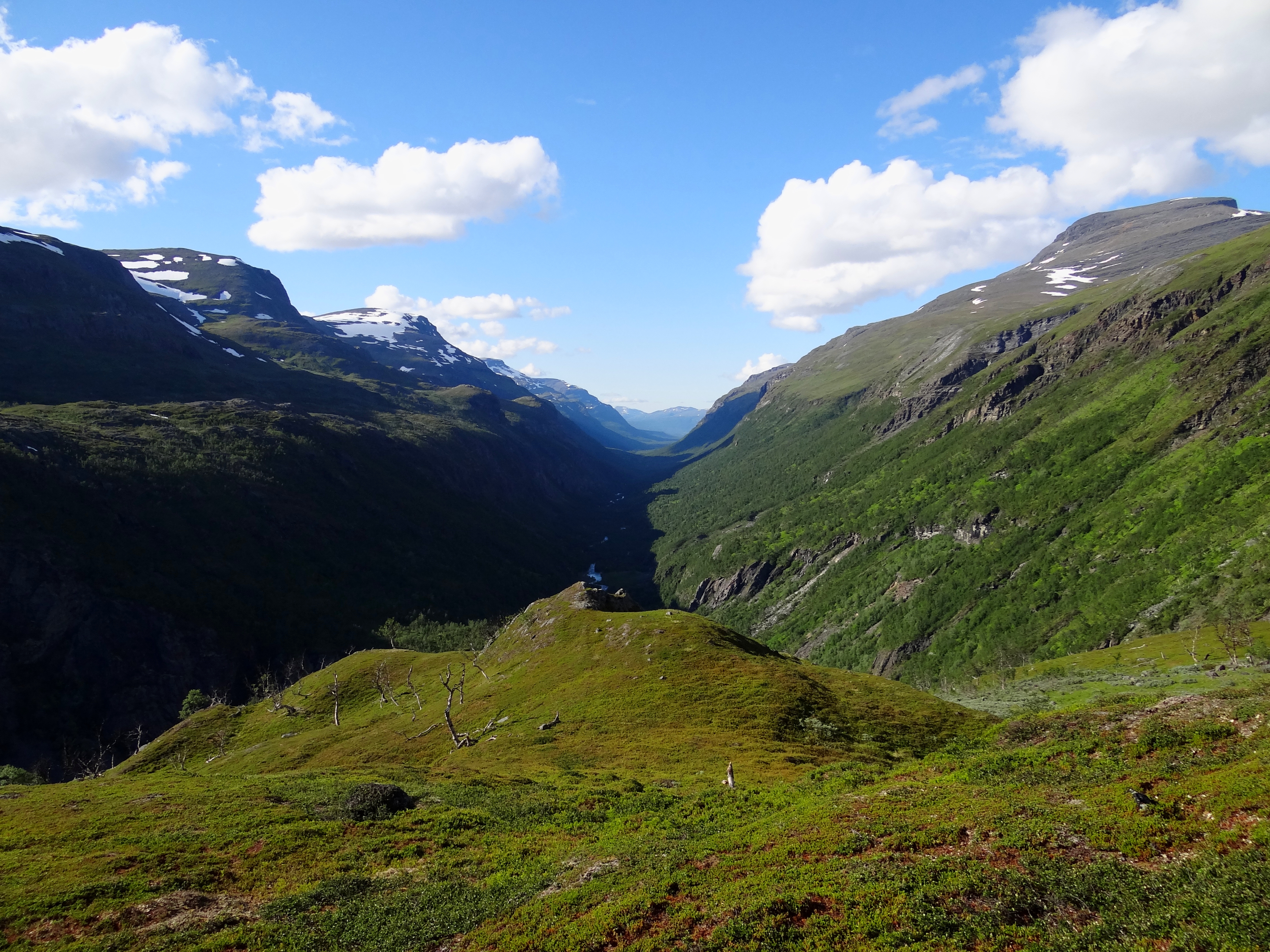 The Sørdalen Canyon in Rohkunborri National Park in Troms, Norway, seen from south to north from near Staggonjunni.